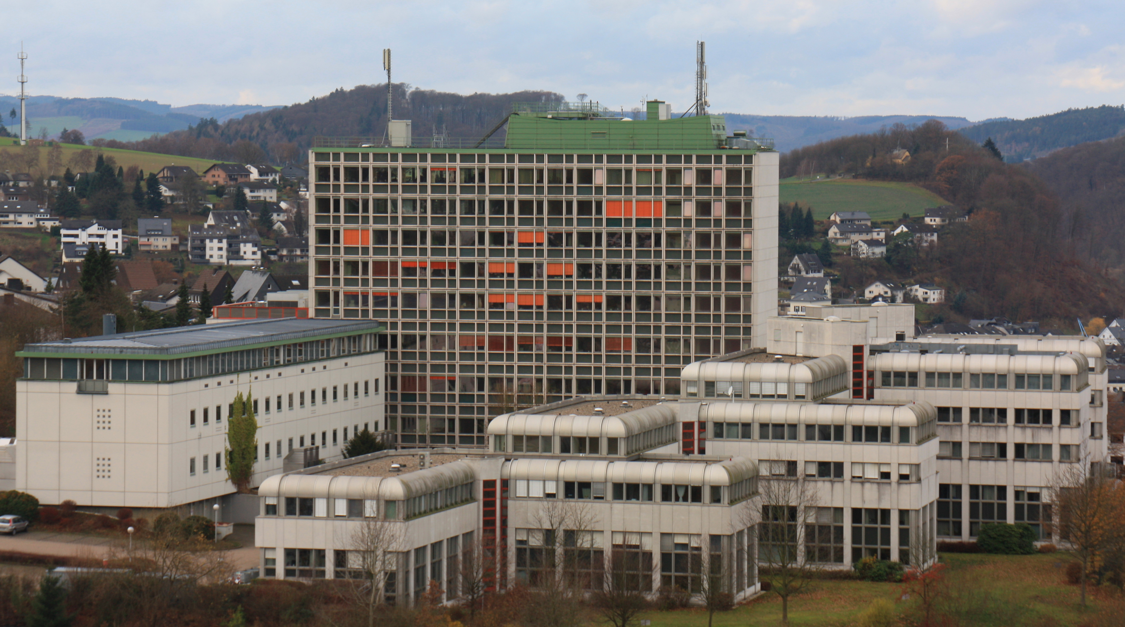 Telekom-Niederlassung Meschede